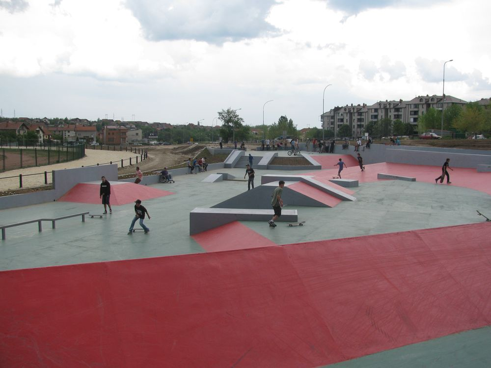 he Bor Skate Plaza is the biggest skate plaza in the Balkans.